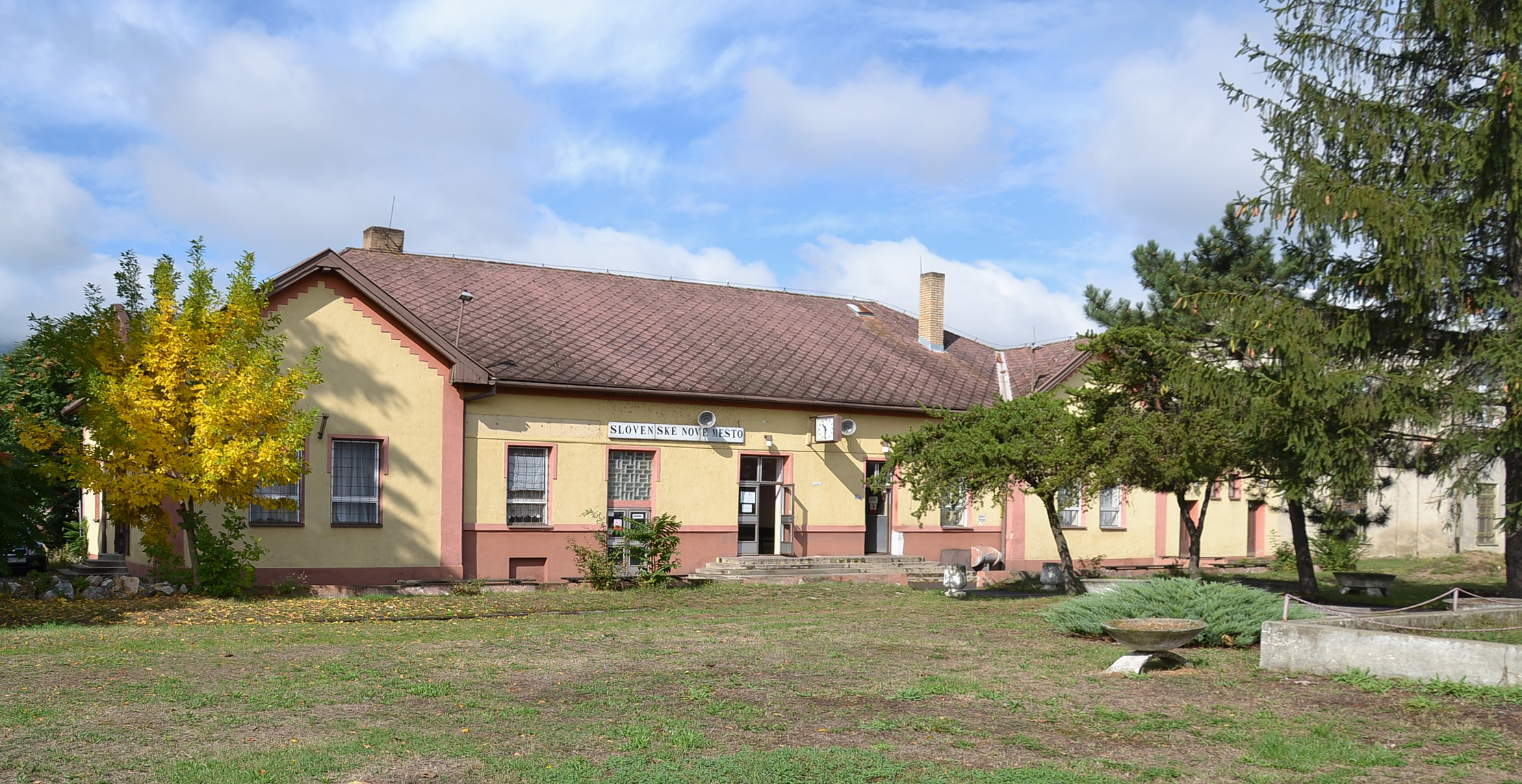 Slovenské Nové Mesto (Újhely) - railway station